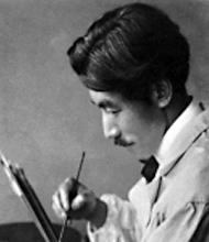 Portrait of Kiichi Okamoto